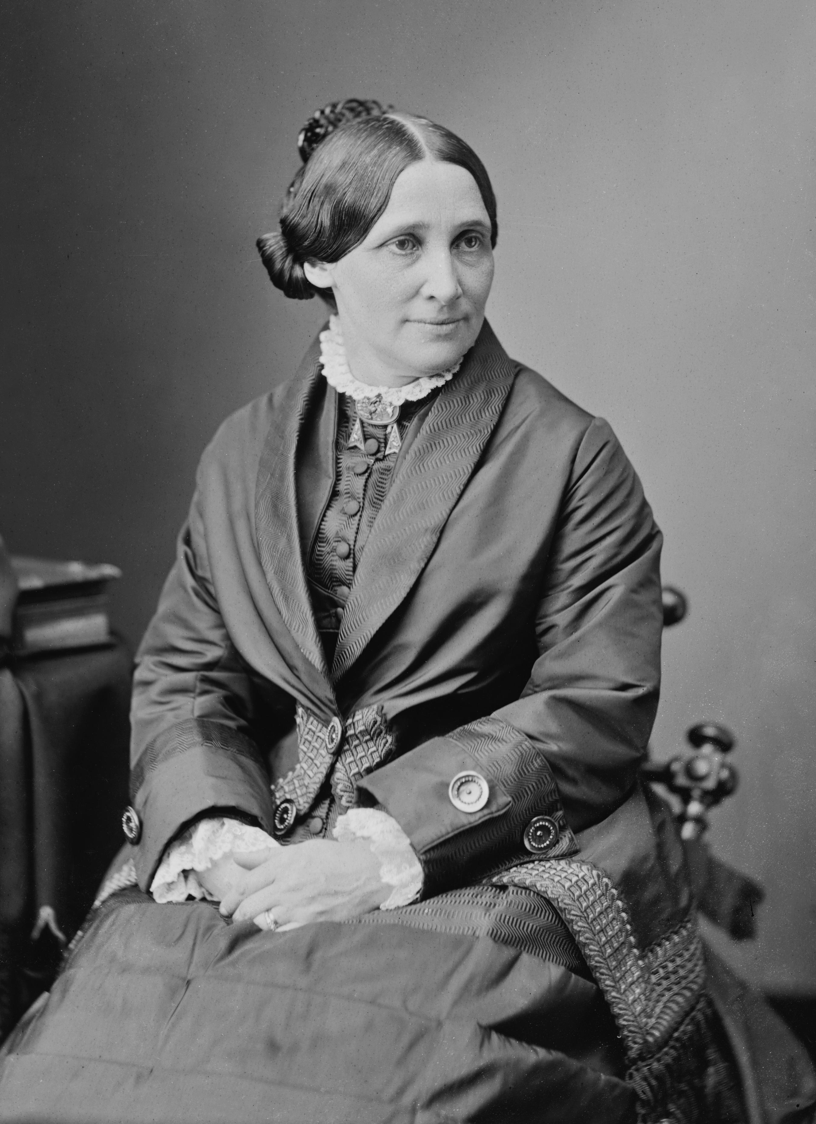 Lucy Webb Hayes. Library of Congress description: "Hayes, Mrs. RB"